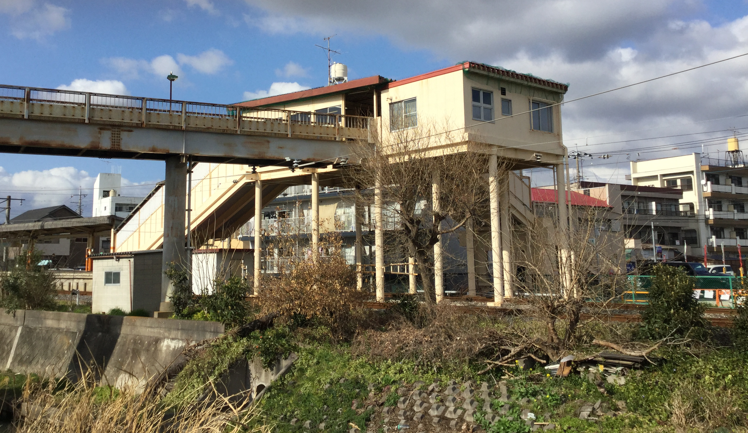 The railway goes along a river, and the station has a bridge over the river (center to left). Station building had been formerly larger, but its resident part is removed due to over aged.